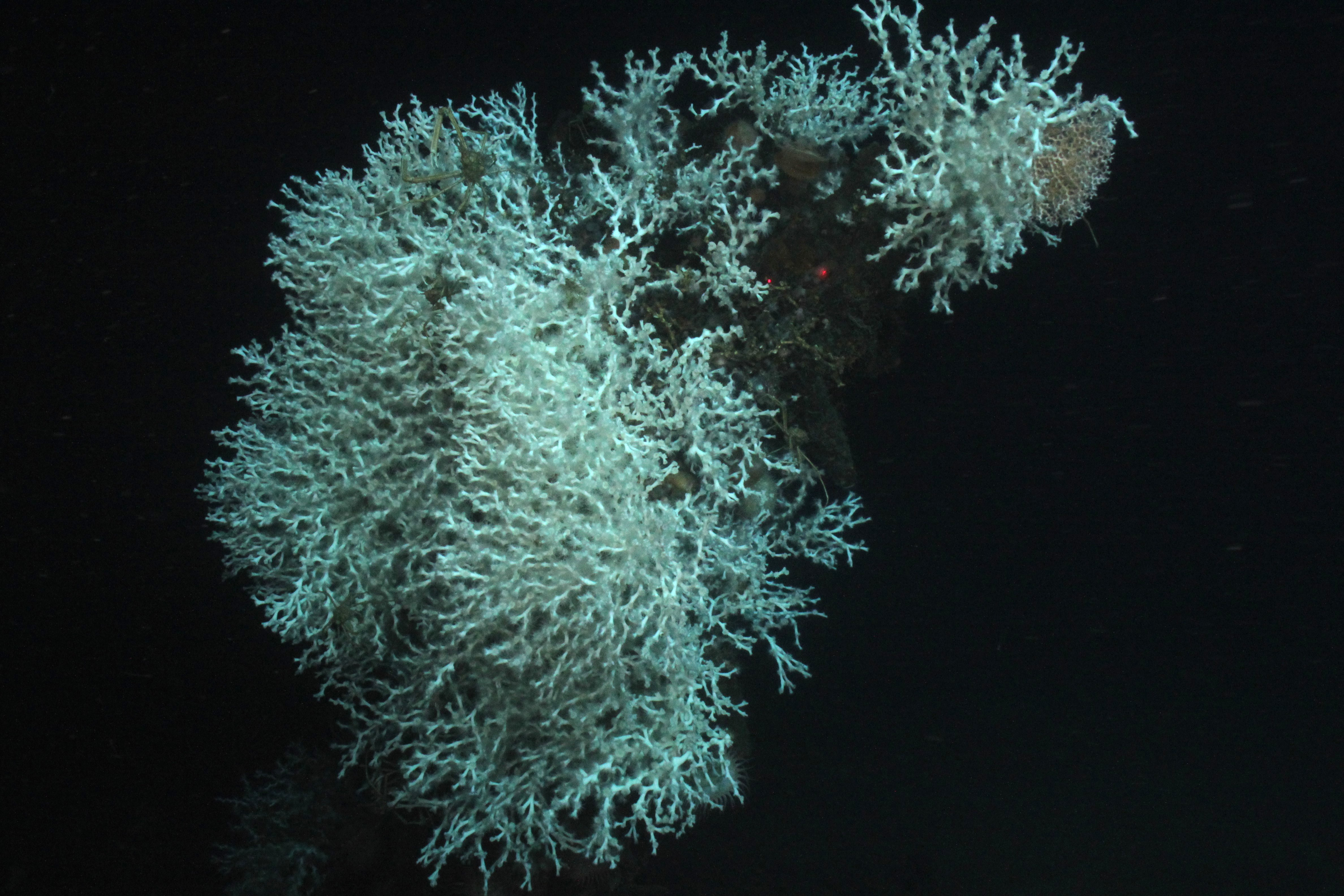 A huge colony of Lophelia lives on the stempost. Gulf of Mexico. 2009 September 8.